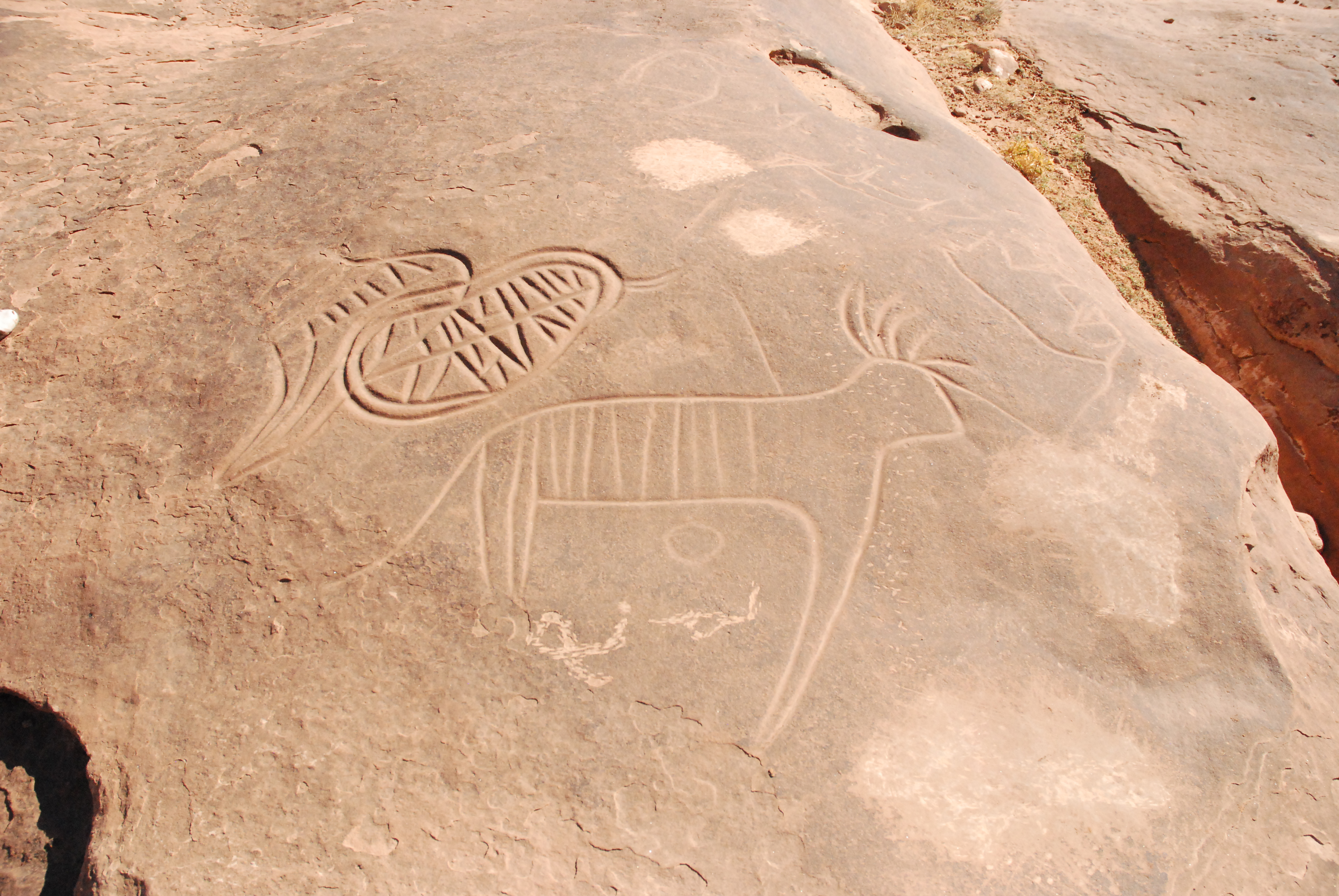 oasis ich maroc oriental